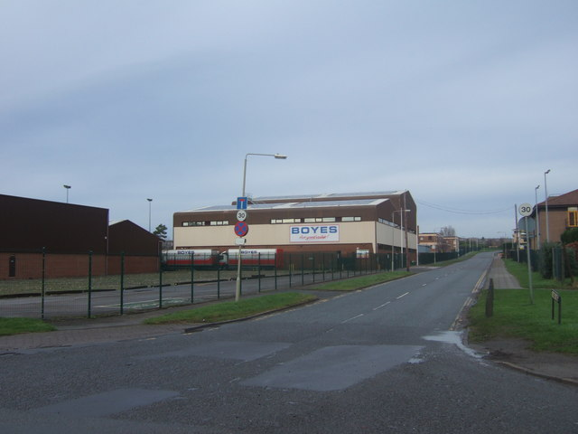 Boyes warehouse on Havers Hill, Cayton